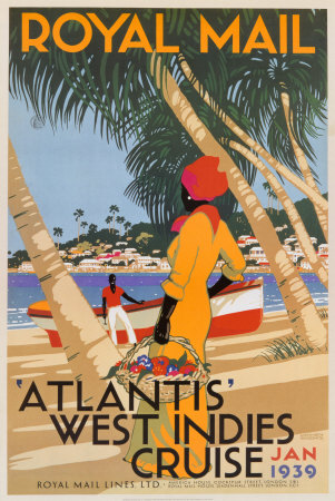 Royal Mail Lines poster advertising voyages in the Caribbean